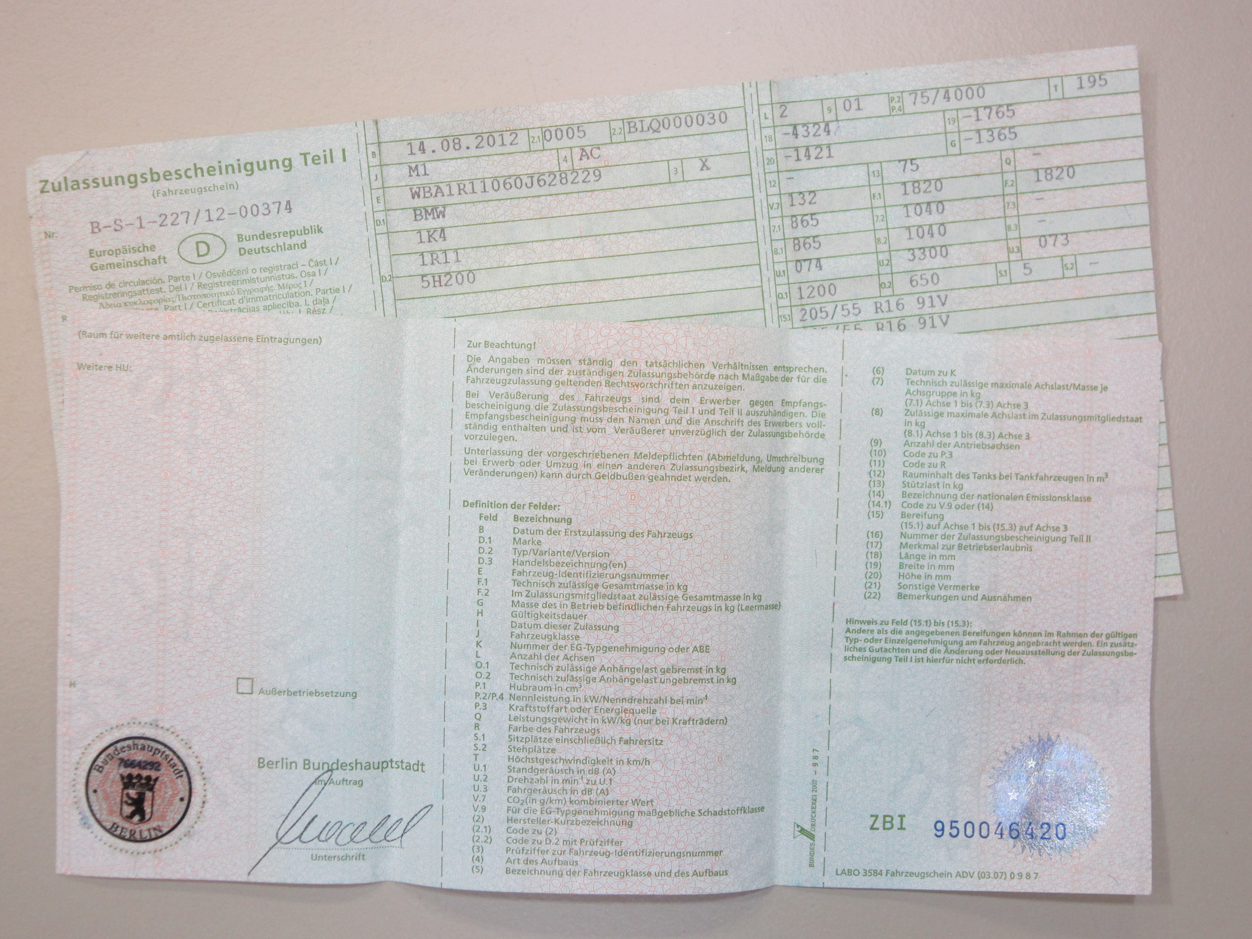 German registration certificate Part I (front+back)